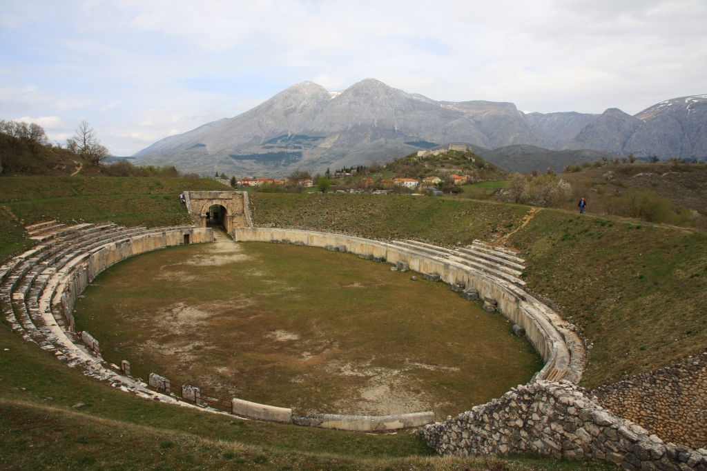 Ruins of the amphitheatre of Alba fucens